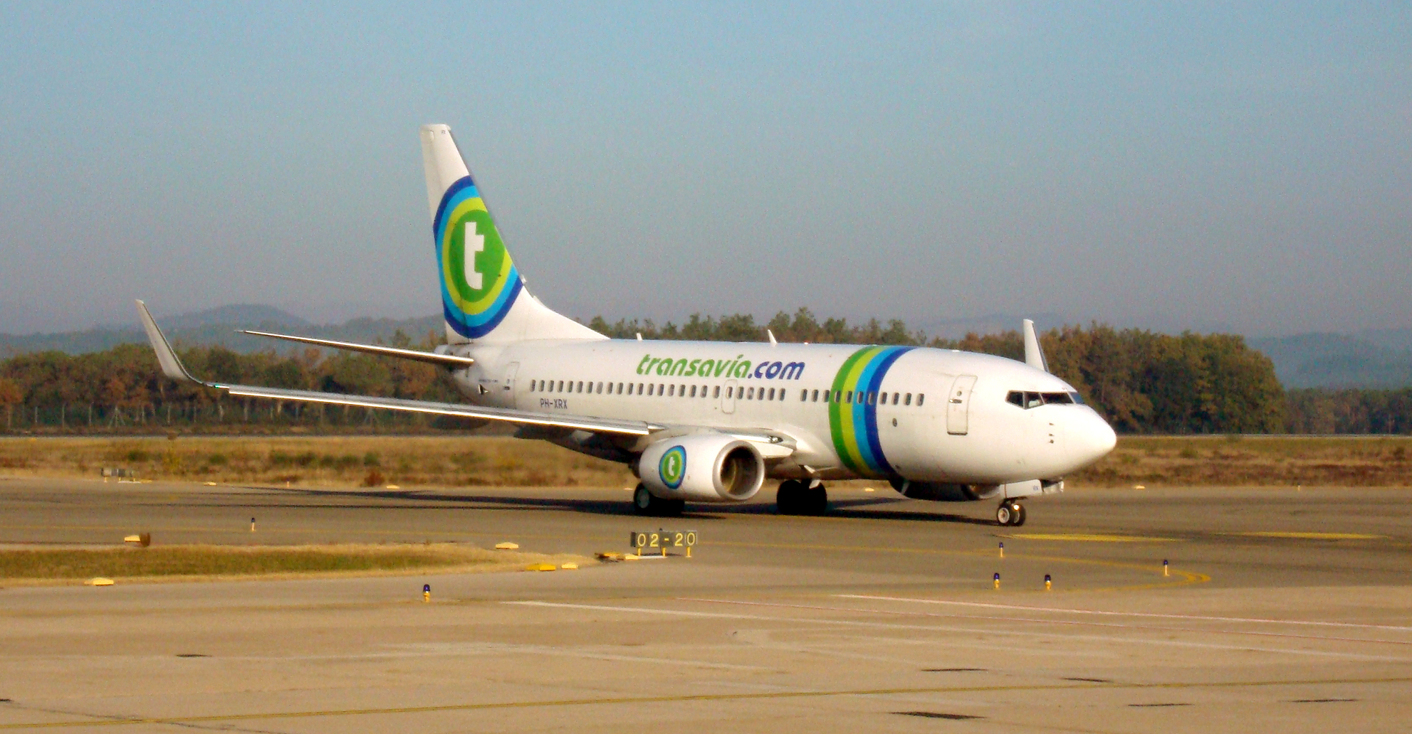 Transavia Boeing 737-700 taxiing after landing in Barcelona's auxiliary airport, Girona.